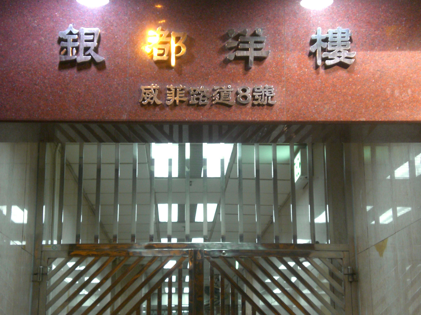 威菲路道